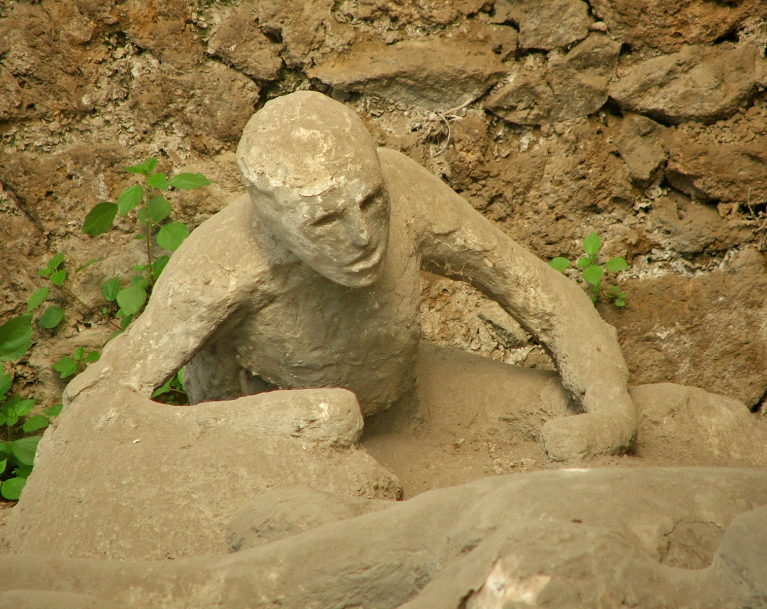 The cast of the corpse of a victim of the 79 AD eruption of the Vesuvius, found in the so-called Gaarden of the fugitives" in Pompeii.